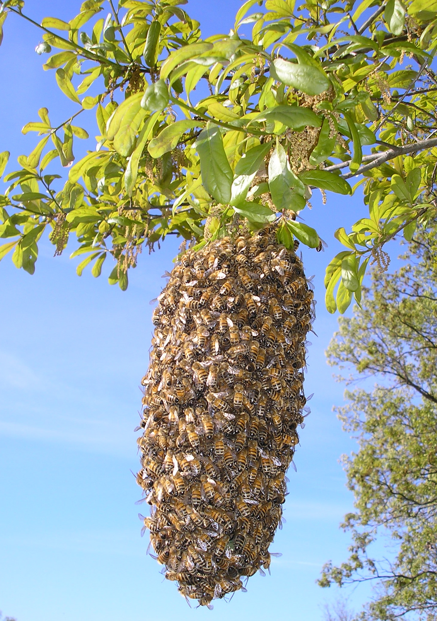 I made this image in April of 2008.